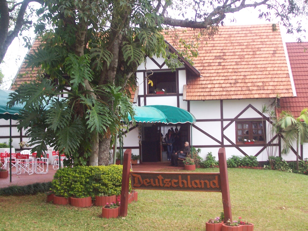 Picture of the German House, in the Park of the Nations, within the framework of XXVI the National Immigrant's Festival, in Oberá, Misiones, Argentina.